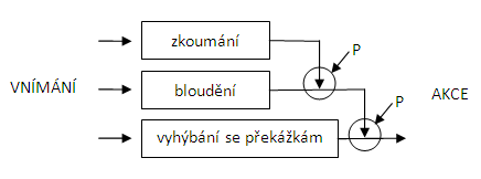 example of subsumption architecture of the reactive agent